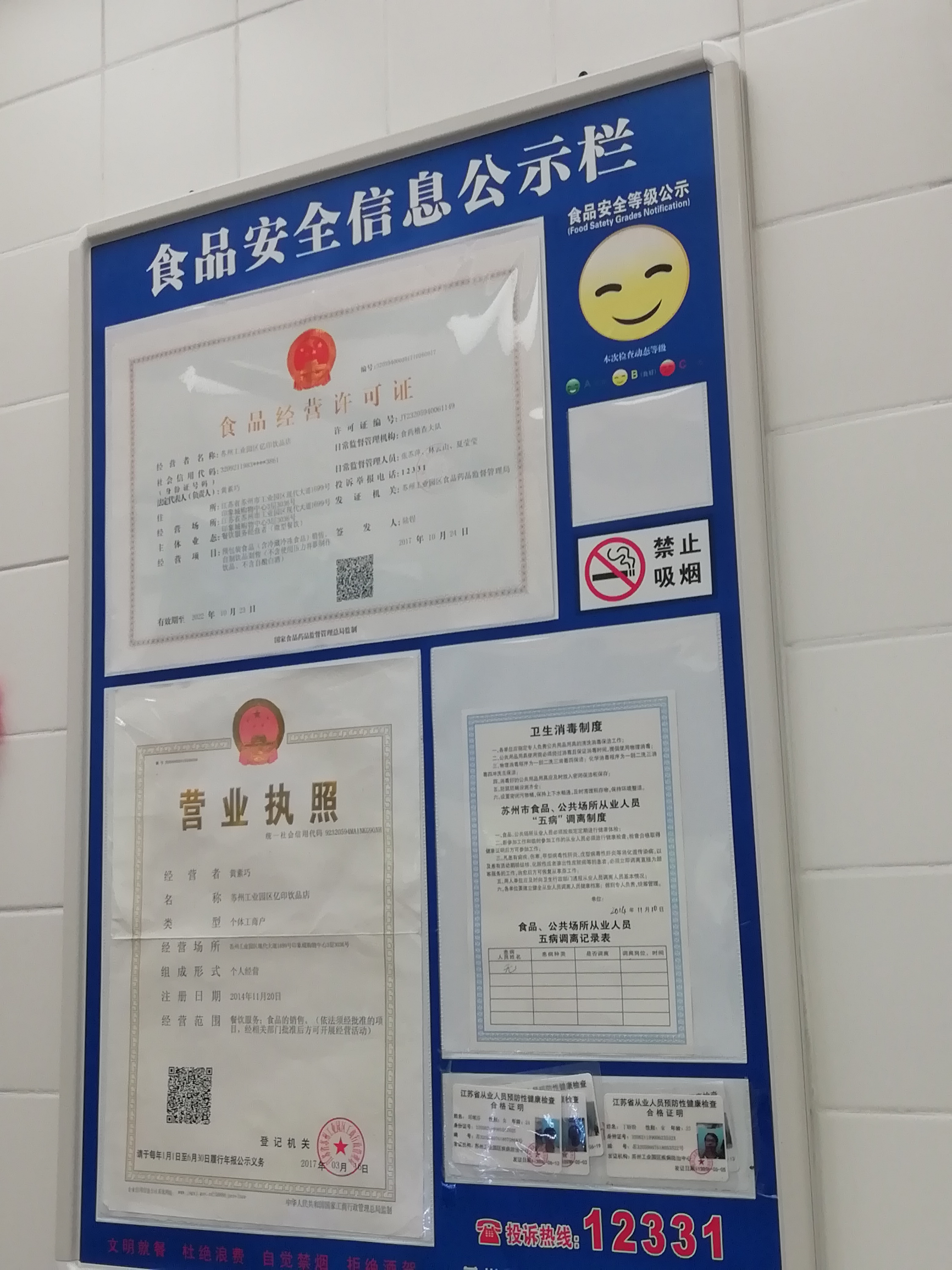 A Business Licence in a tea shop in Suzhou 中文（中国大陆）: 苏州市一家茶饮店的营业执照，加载统一社会信用代码